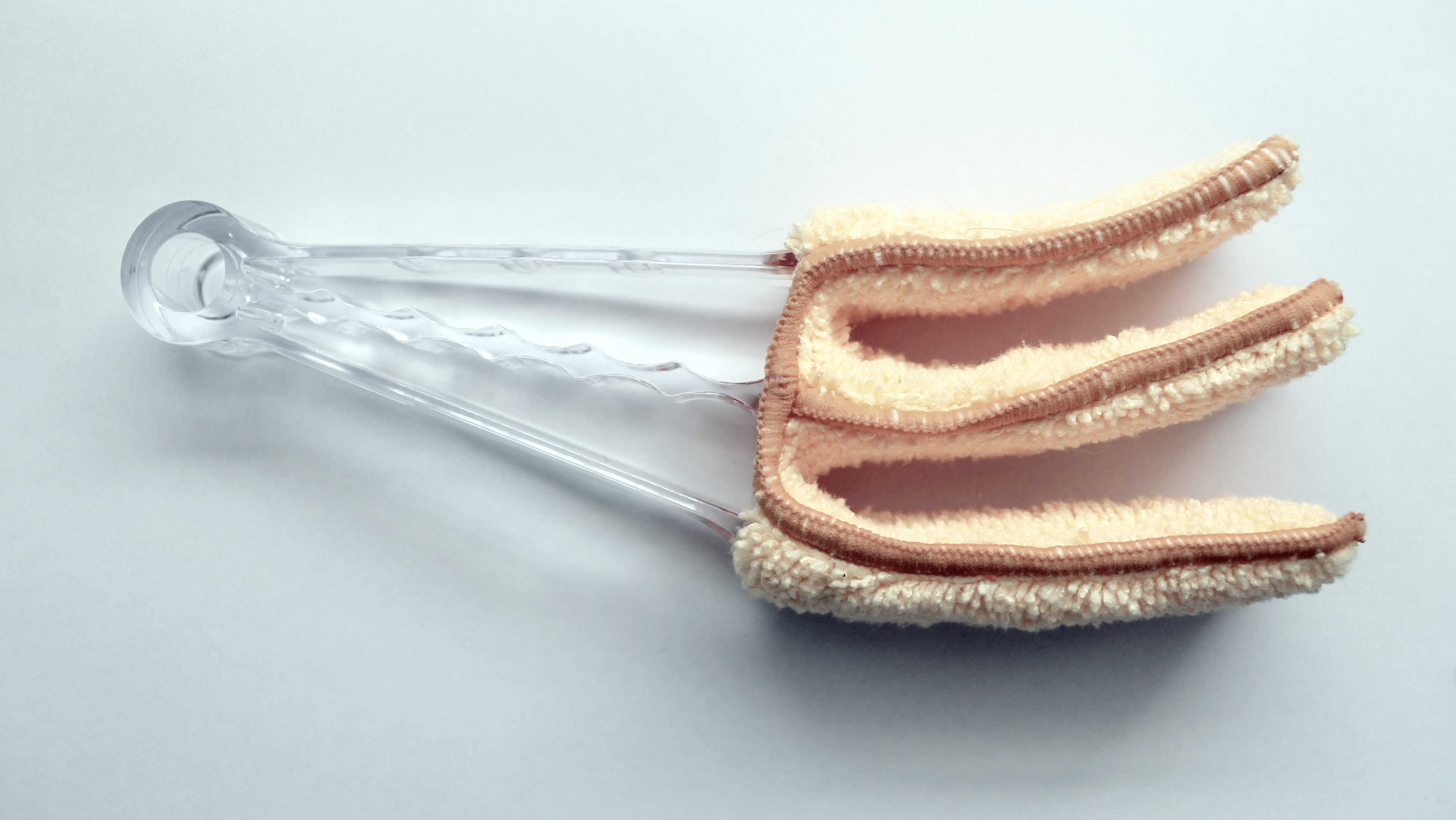 Window blinds duster